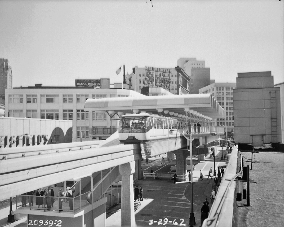 Seattle Monorail at its original downtown station, 1962. Most of the area in this picture from the monorail to the right is now Westlake Park. Item 70913, Engineering Department Photographic Negatives (Record Series 2613-07), Seattle Municipal Archives.